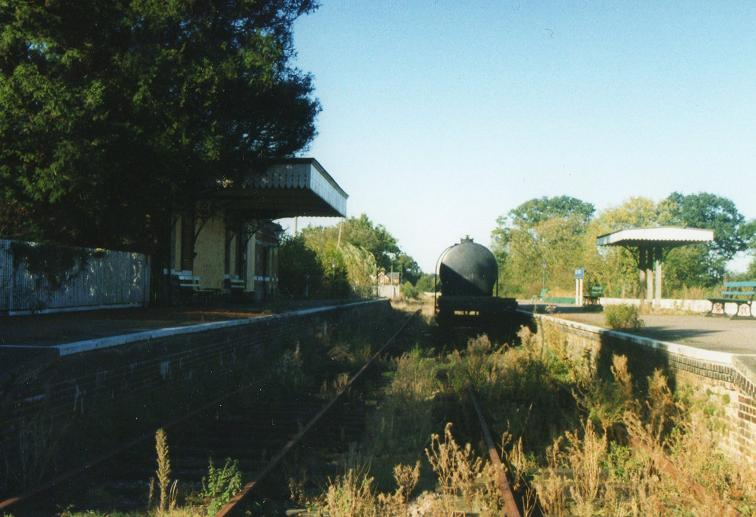 A derelict County School station after closure by the GER (1989) Ltd